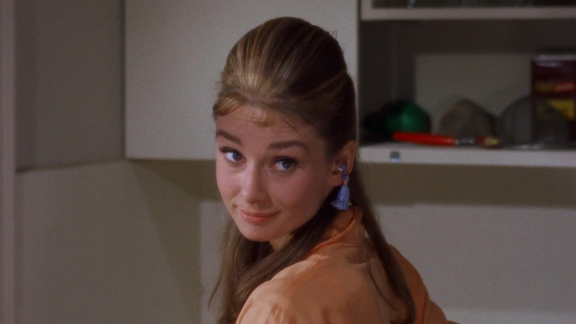 Audrey Hepburn at Breakfast at Tiffany's.